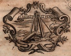 Comino's mark